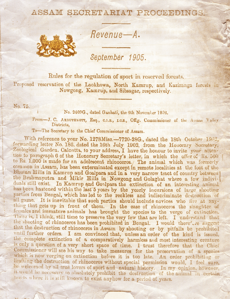 A letter showing the proposal for the establishment of Kaziranga reserve forest